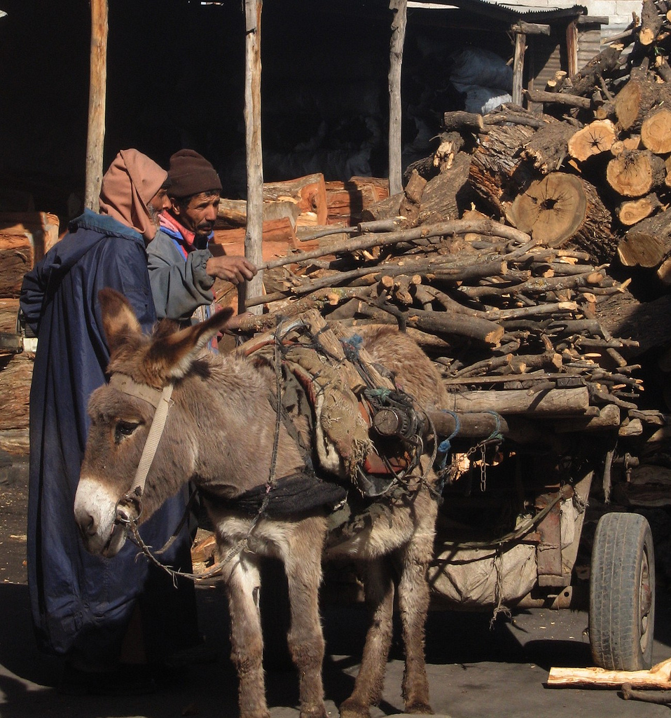 A donkey cart in Marrakech Morocco.